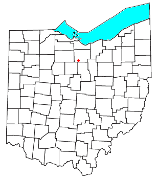 Locator map of the unincorporated community of New Haven in Huron County, Ohio, United States.